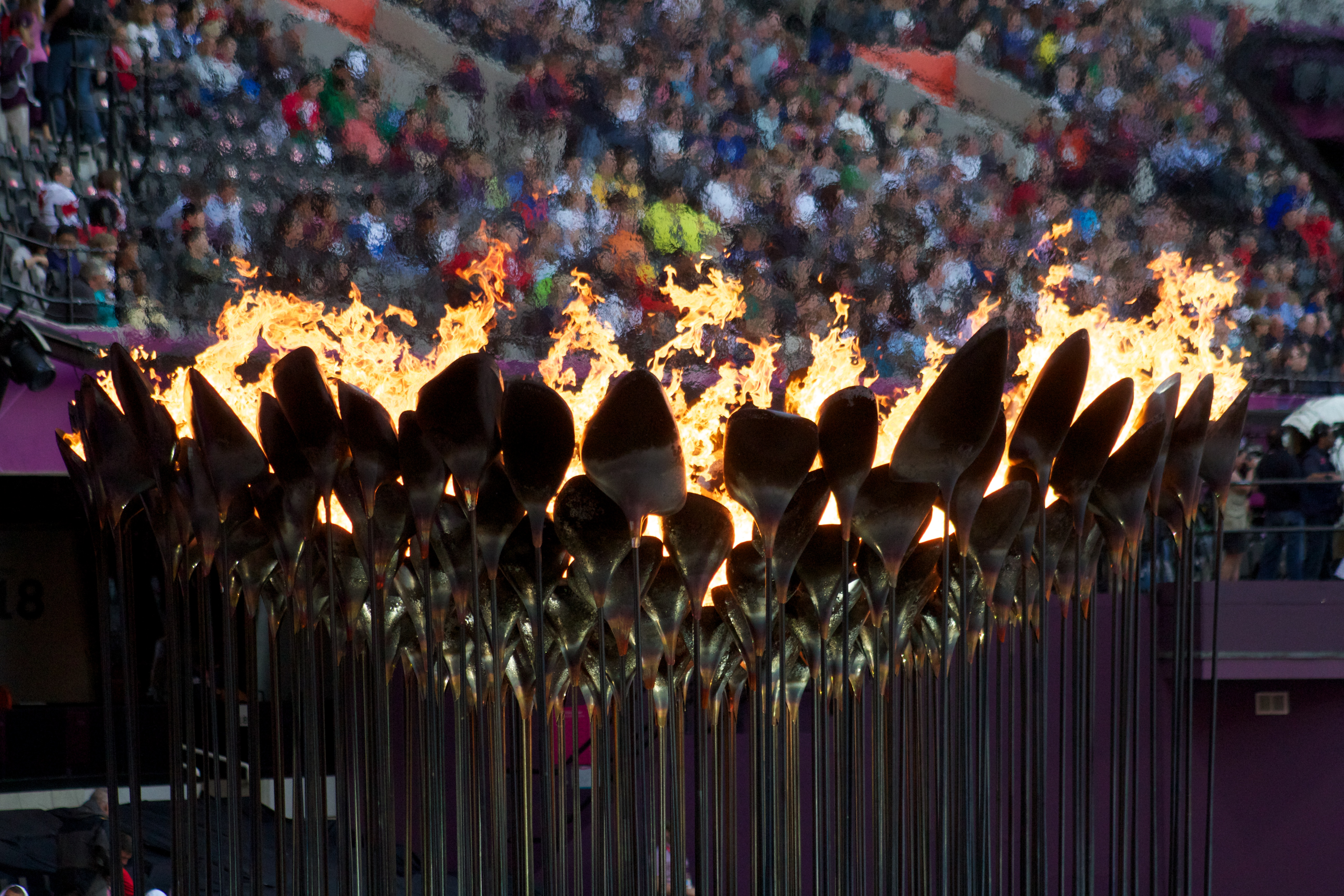 Close of the Olympic Cauldron and Flame, as design by Heatherwick Studio.